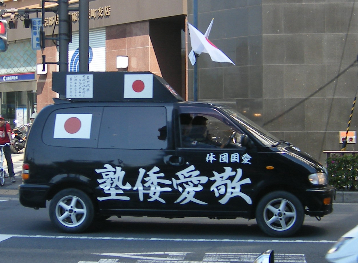 The nationalists held a demo (parade?) on constitution day (during Golden Week). The text on the car reads (right-to-left, traditional way of writing):"愛国団体(Aikoku Dantai) 敬愛倭塾(Keiai Wajuku, or possibly Keiai Yamatojuku)," sort of "Nationalist Group", "Respectful love for Japan school", I guess they were lobbying for the introduction of the term "aikokushin" in primary school as "to feel love for one's home and Japan".